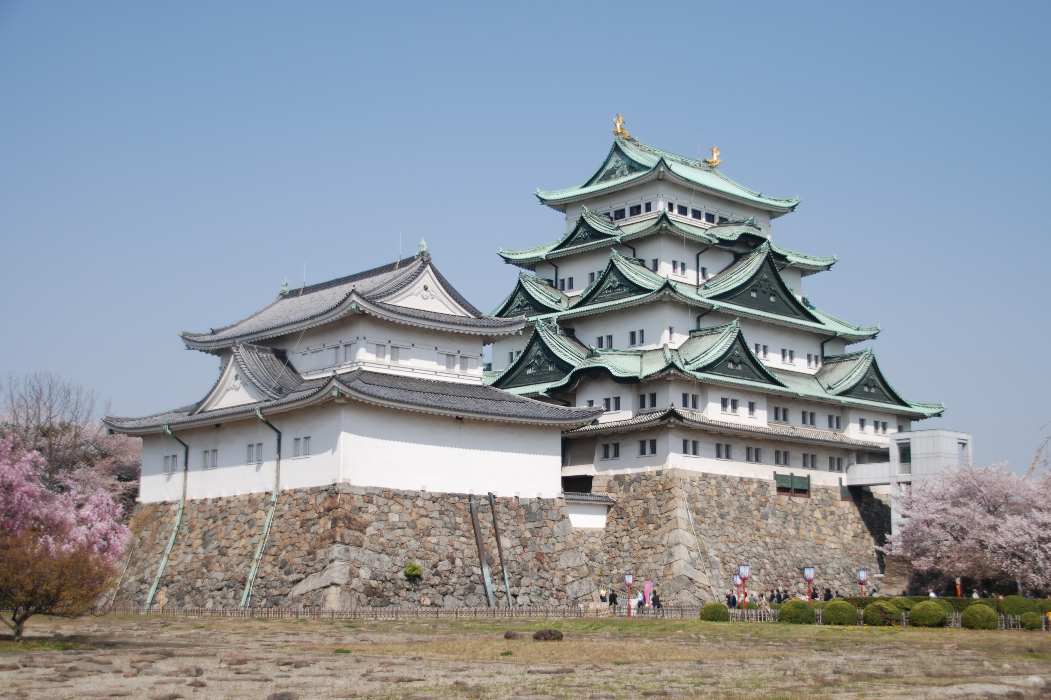 Nagoya_Castle_Tower_in_Spring